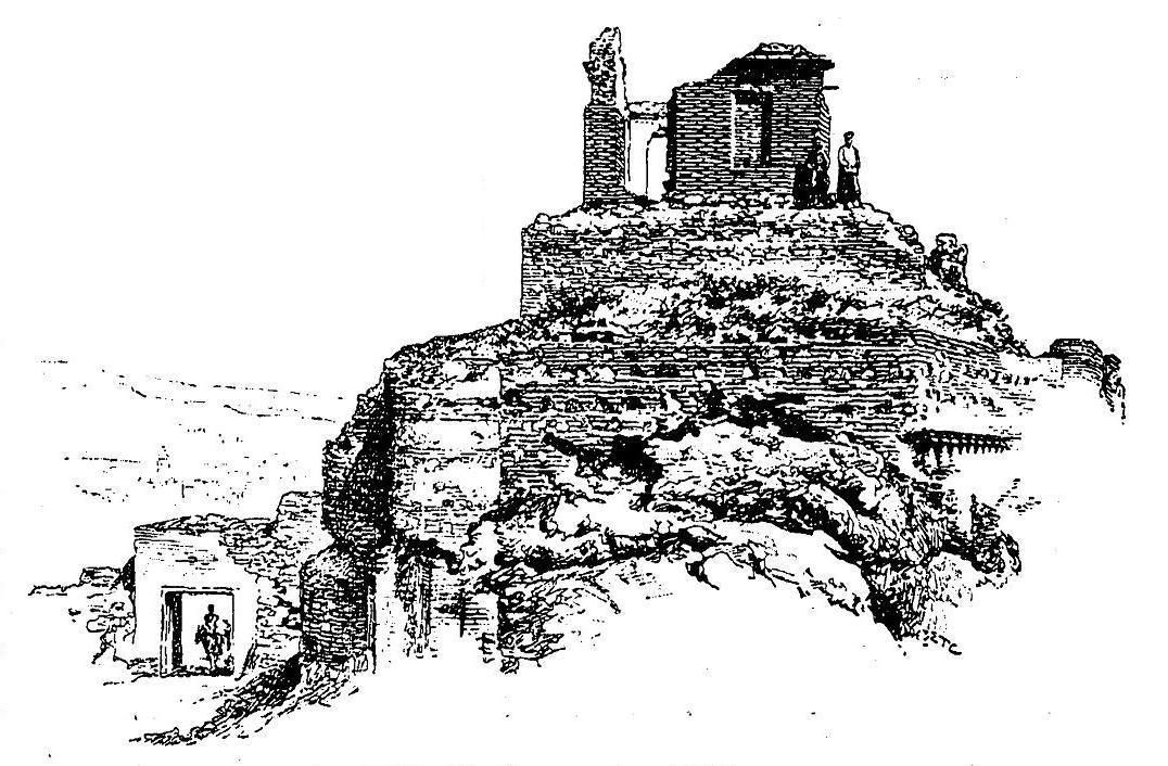 "Shah-Takhti", a now ruined component of the Tbilisi citadel as it looked like at the end of the 19th century